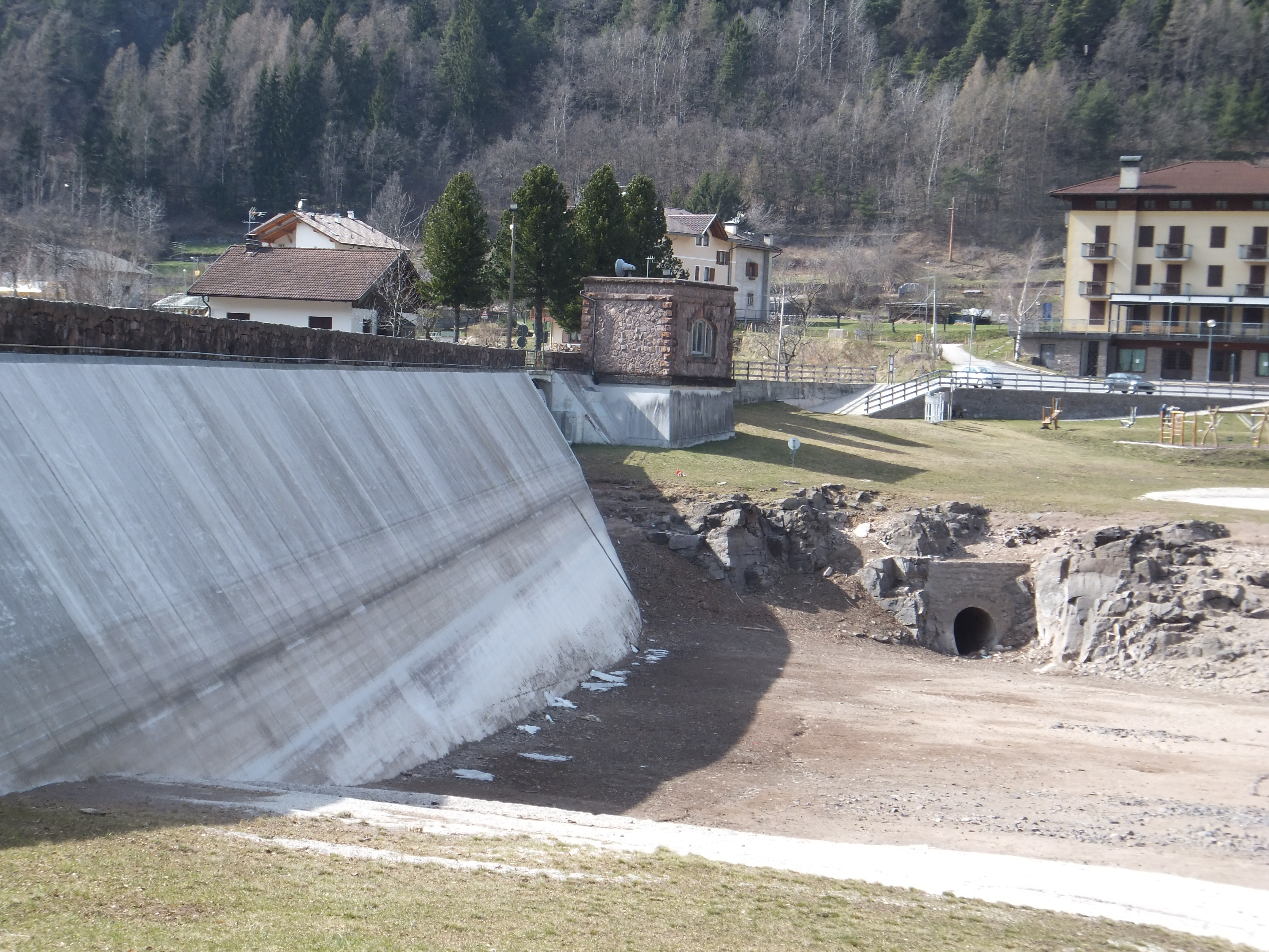 Lake of Piazze (Trentino, Italy), at low water level - side view of the dam